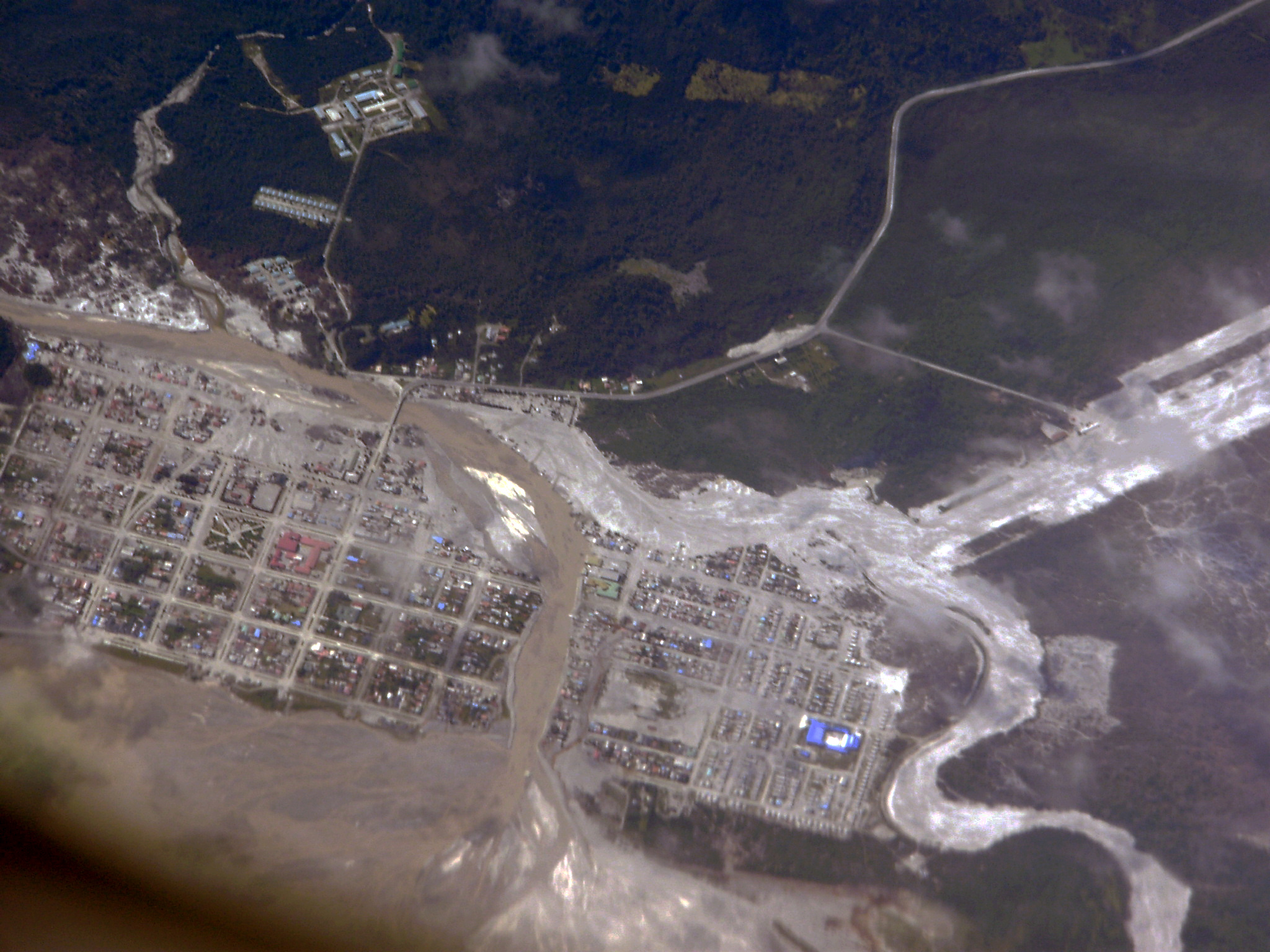 Aerial view of the town of Chaitén, Chile, in February 2009. Two channels of the White River are seen in the image: on the right is the normal course, and on the left is the overflow caused by the eruption of Chaitén volcano.